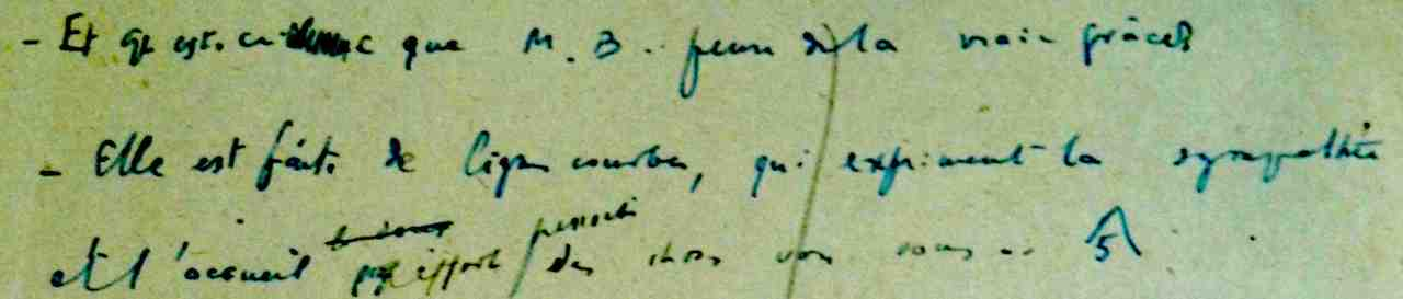 Augustin 's draft